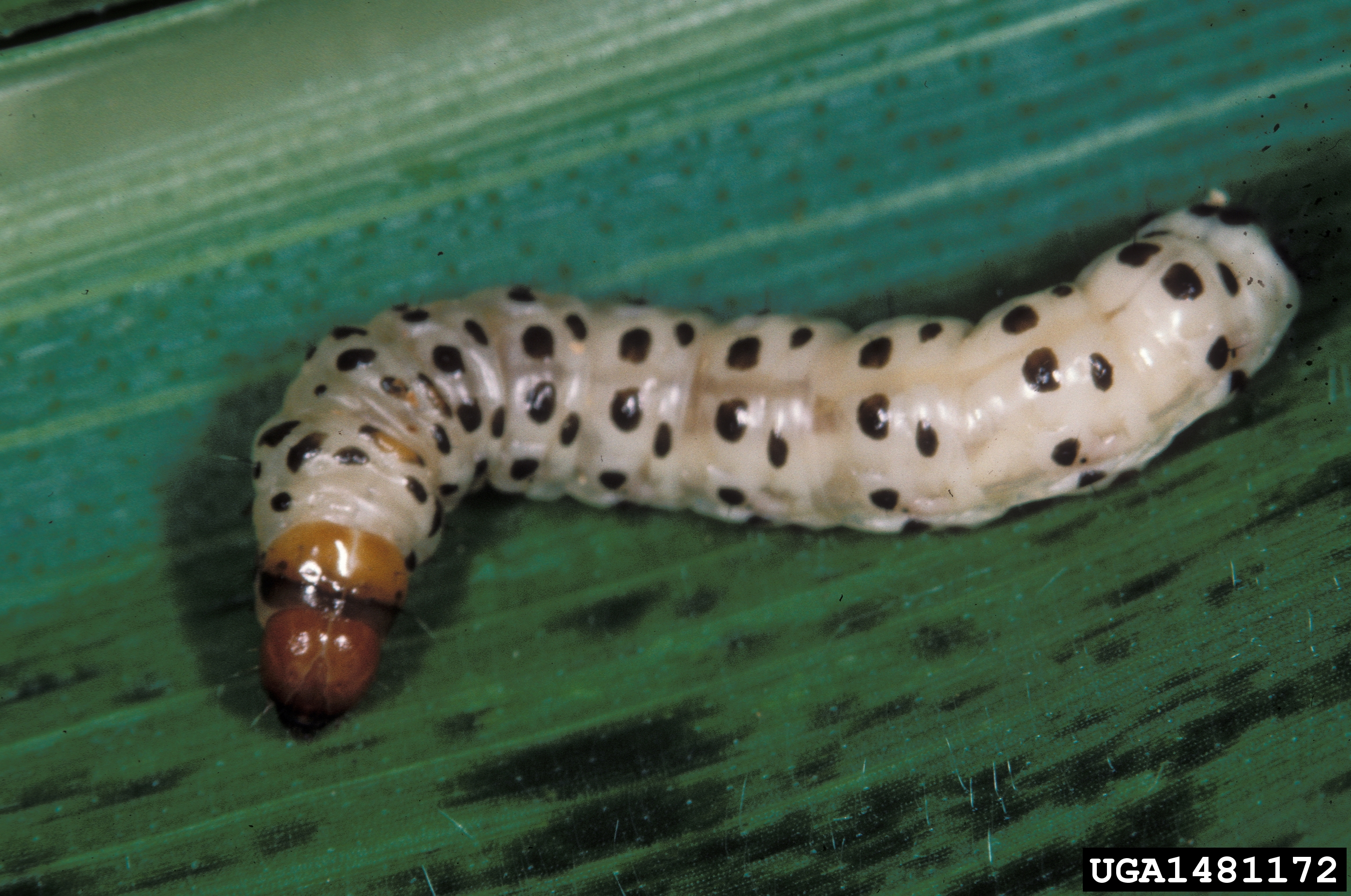 A Southwest Corn Borer in the larval stage